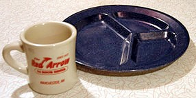 Typical sectional blue plate used for "blue plate specials", as used at the Red Arrow Diner in Manchester, New Hampshire; note that this plate accommodates only two (rather than the standard three) side dishes in addition to the meat course that typically occupies the largest section.